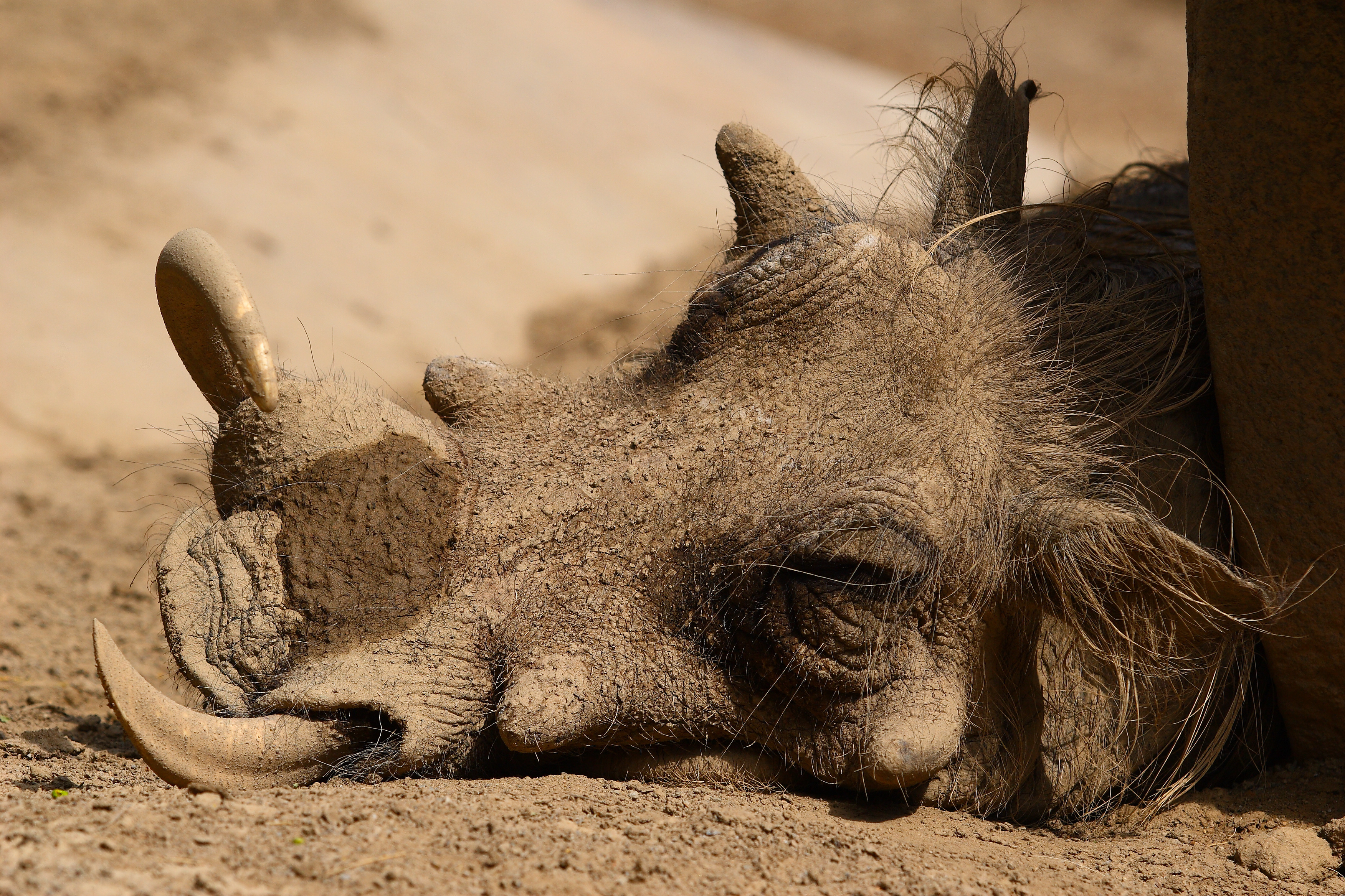 A soiled Warthog relaxing during a hot day at San Diego Zoo, California, USA